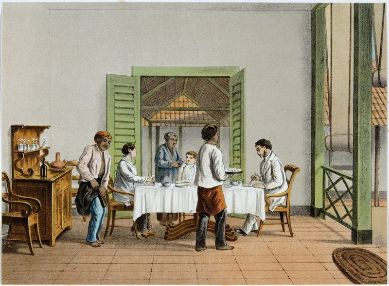 Lithograph after an original work by Rappard, The Rice Table